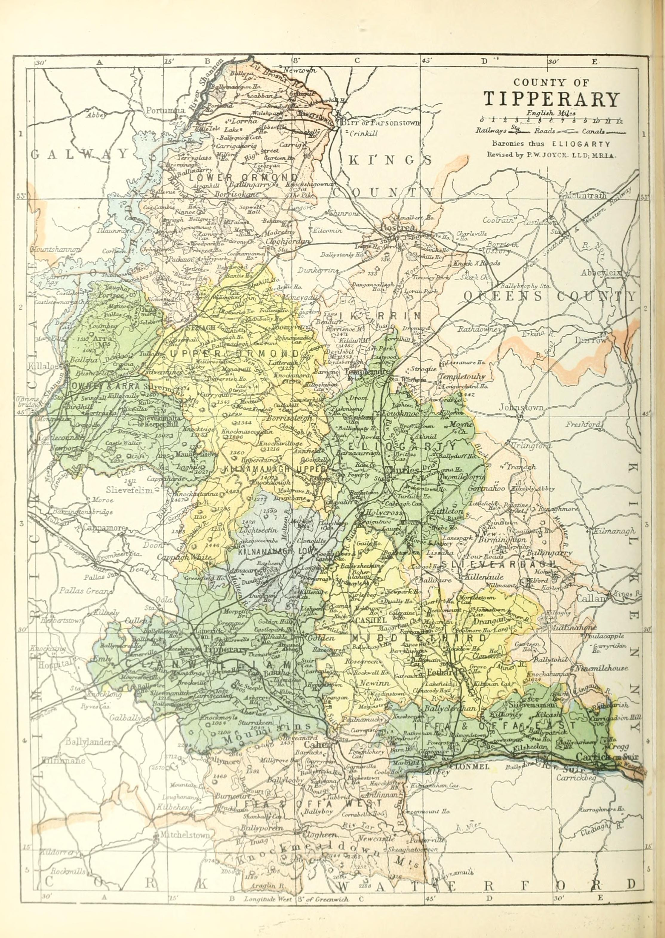 Map of the baronies of County Tipperary in Ireland; taken from Atlas and cyclopedia of Ireland, p.267